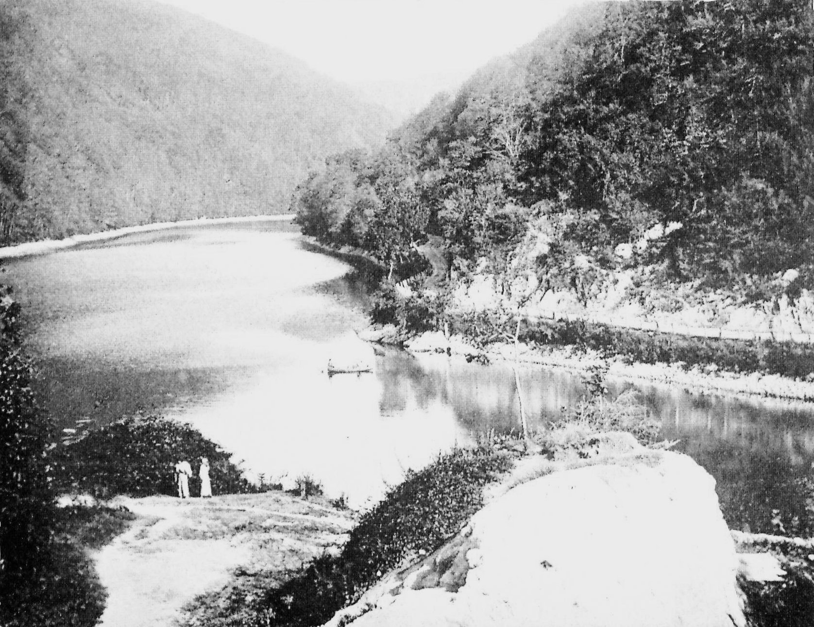 The Lake Hámori in 1897. Photo from the location of Palace Hotel. Lillafüred, Hungary